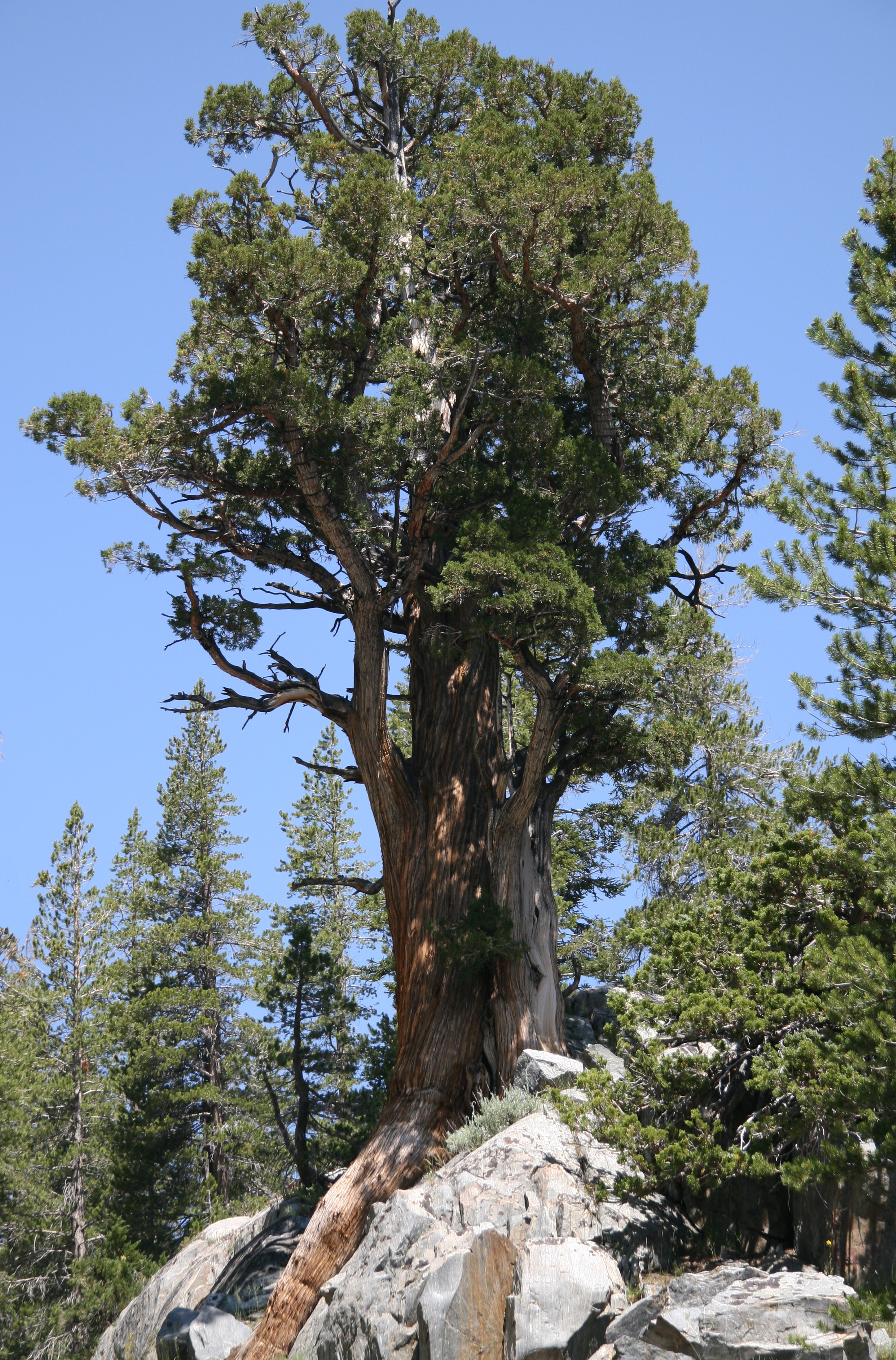 Western juniper (Juniperus occidentalis) on rock. At 8800ft above River Trail along Middle Fork San Joaquin, Ansel Adams Wilderness, California.